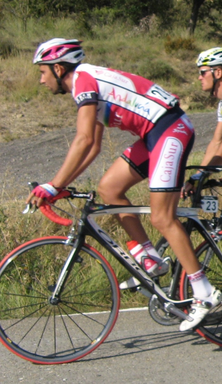 José Antonio López, 2008 Vuelta a España, 9th stage, Alto Gallego, Spain.